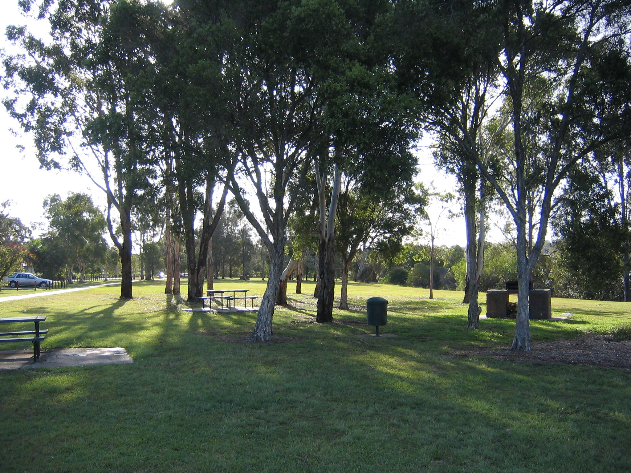 Brisbane Corso Reserve